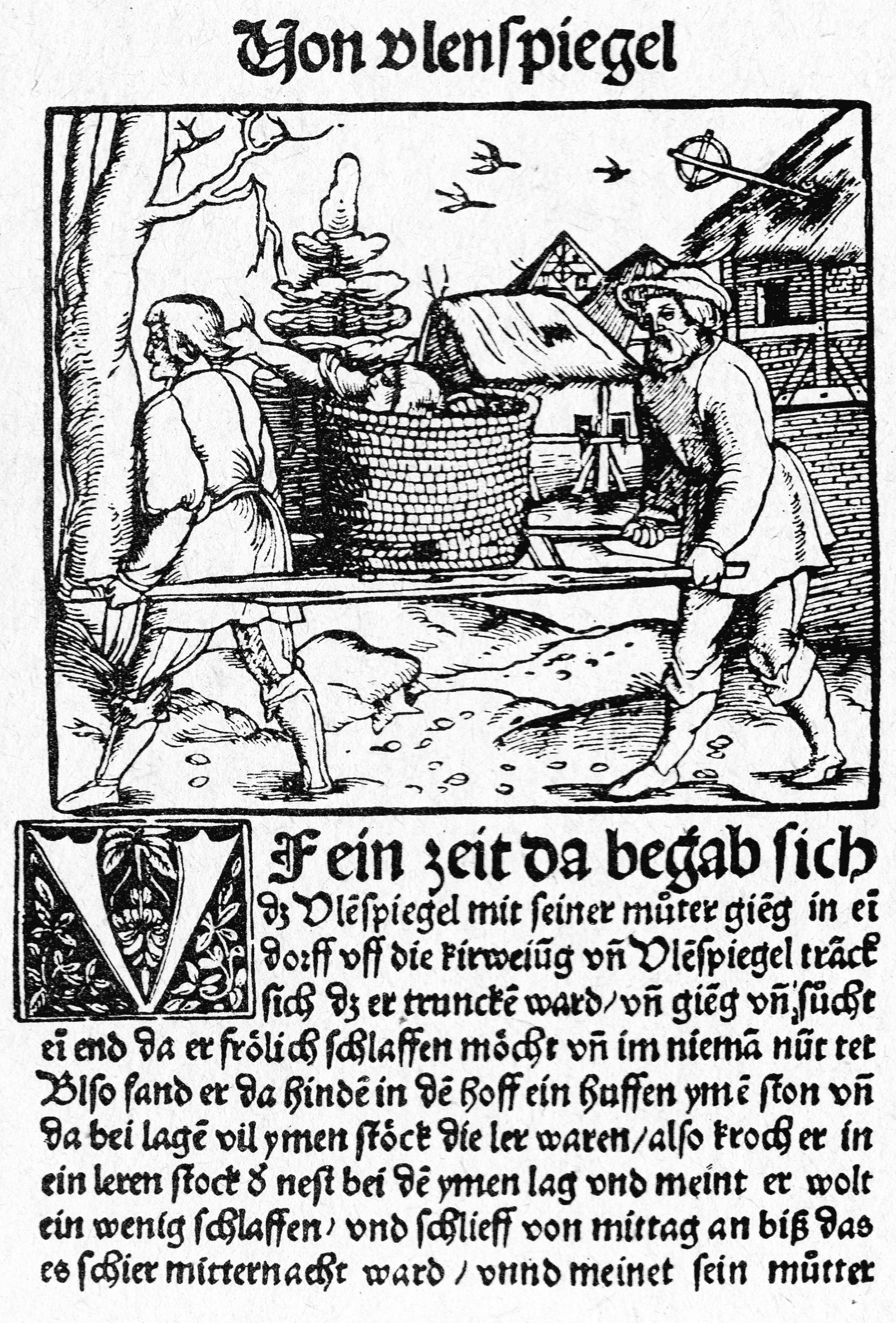 Woodcut. Illustration from "Till Eulenspiegel" from 1515.